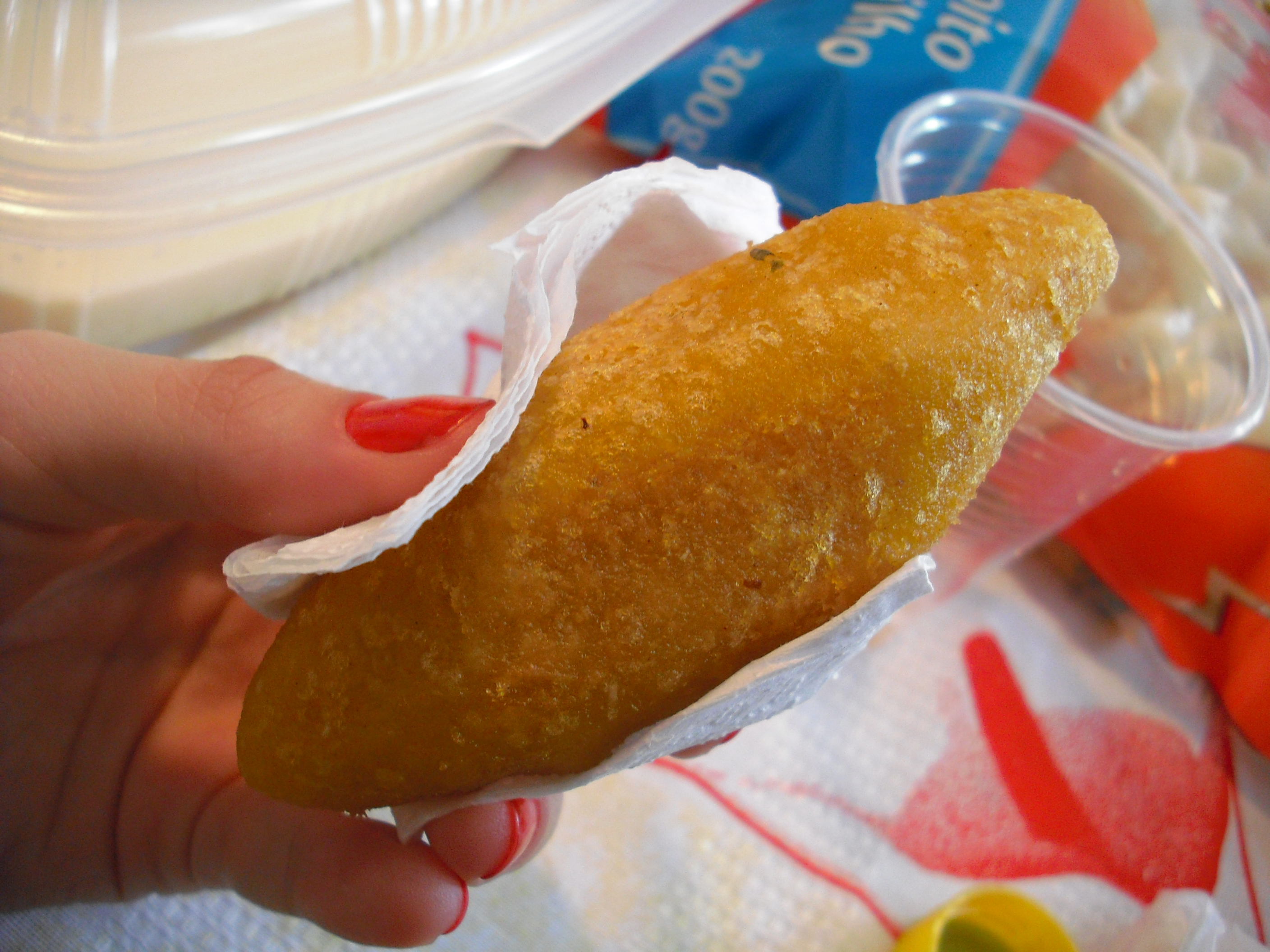 A bolinho caipira, traditional Brazilian delicacy.